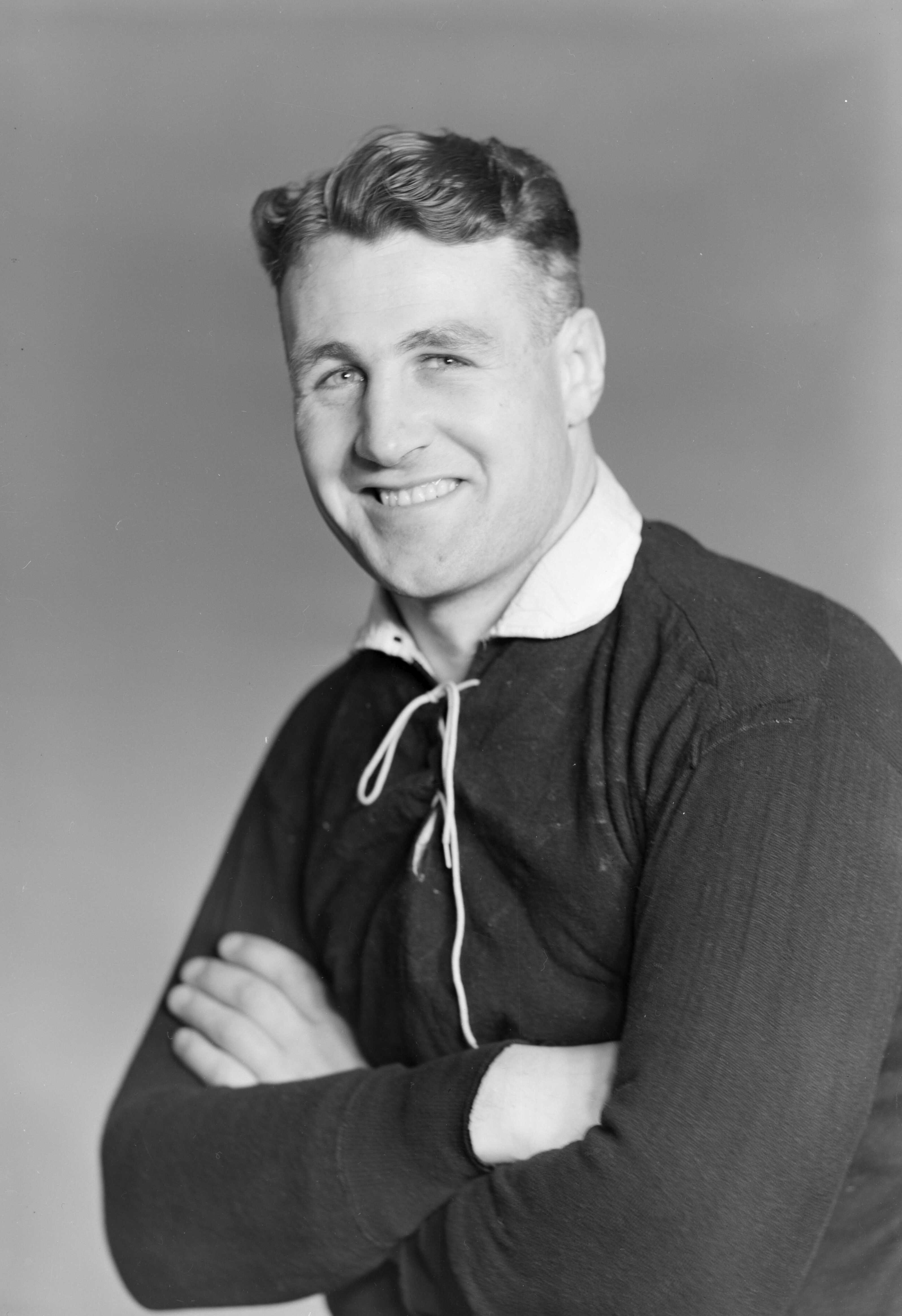 All Black player Kevin Skinnner